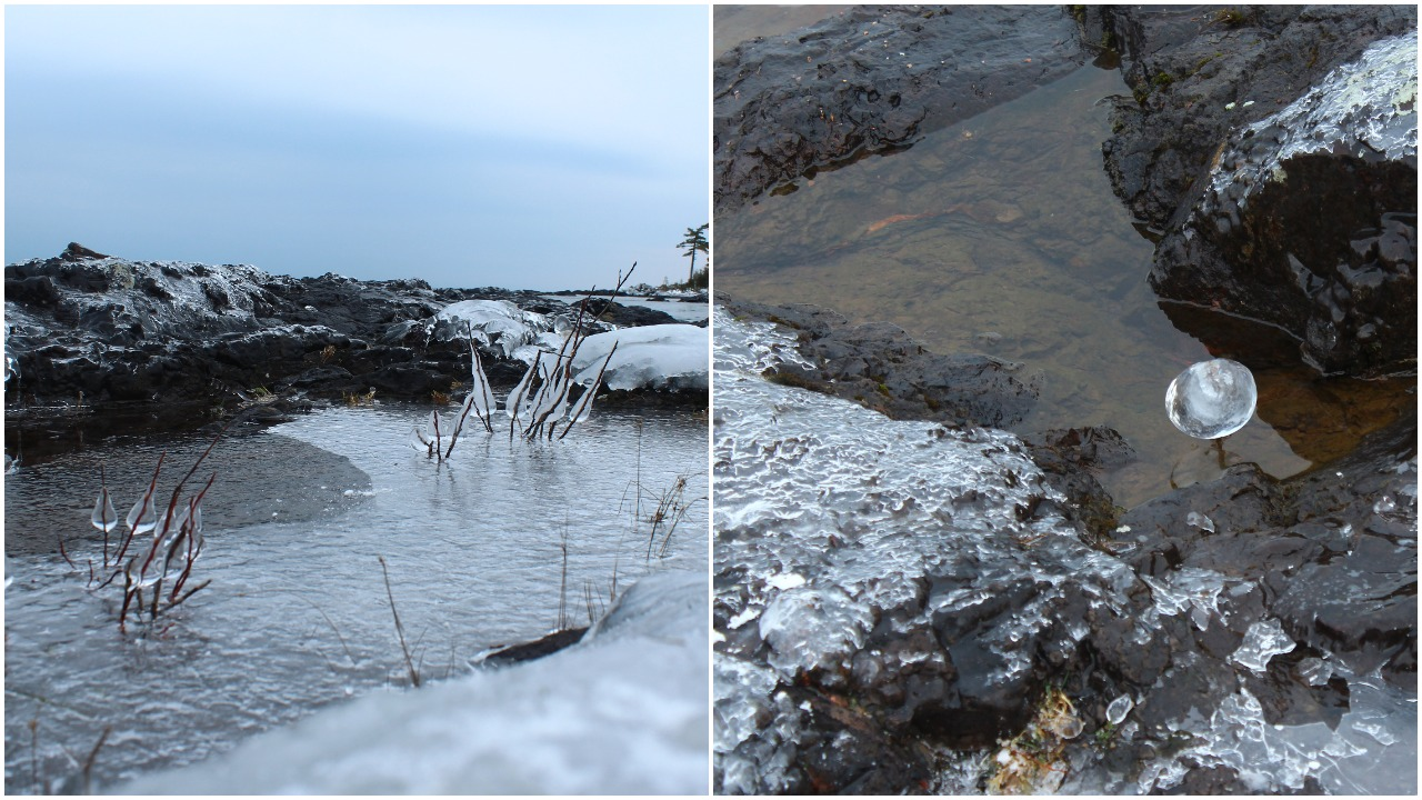 1st image: Early stages of an ice sphere formation. 2nd image: Ice sphere formation Both photos taken by me. Mid-December 2015. Copper Harbor, Upper Peninsula Michigan, USA. Image size: [1280 x 720]